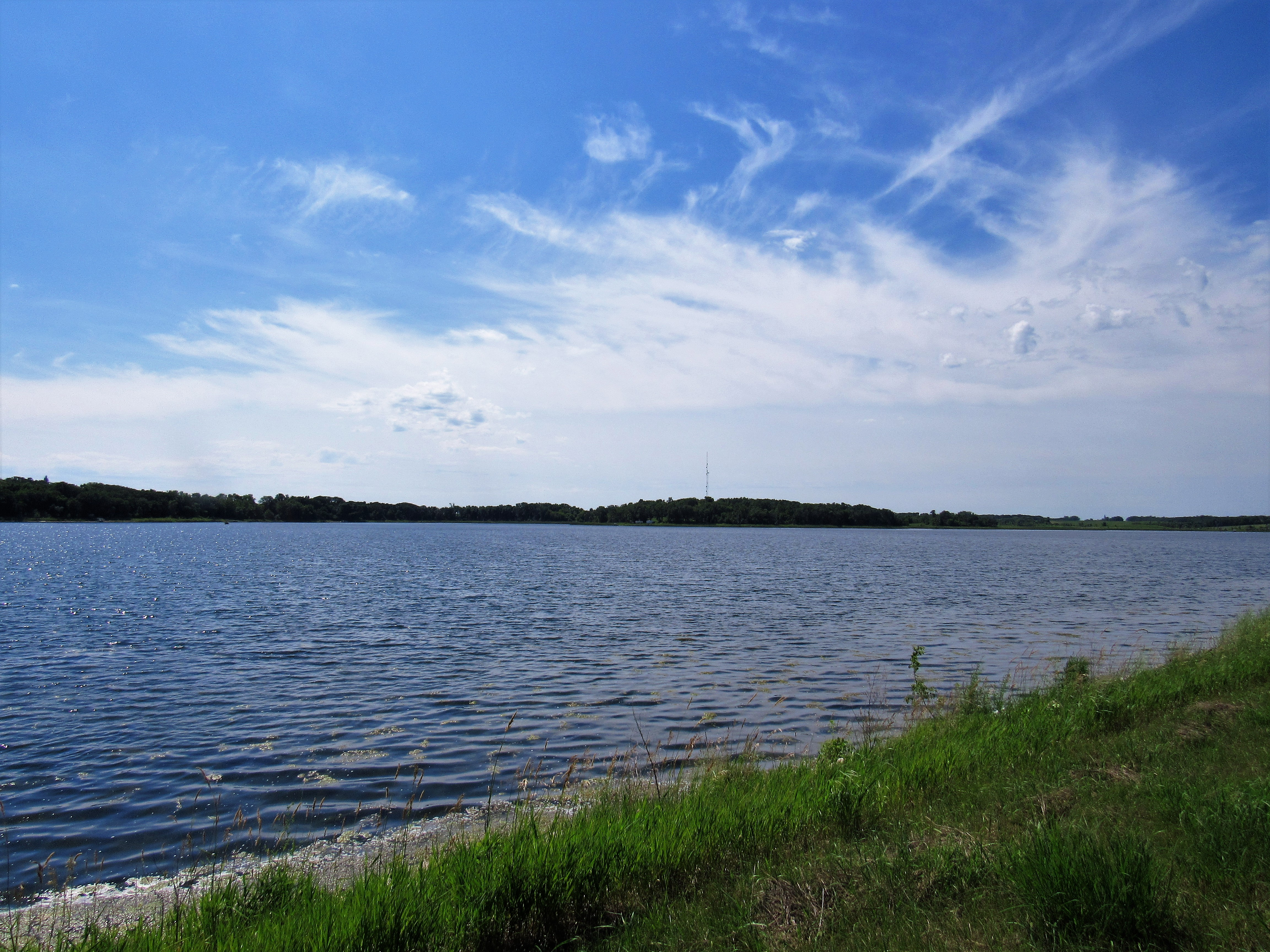 Johnson Lake, along Otter Tail County Highway 12 in St. Olaf Township, Otter Tail County, Minnesota.